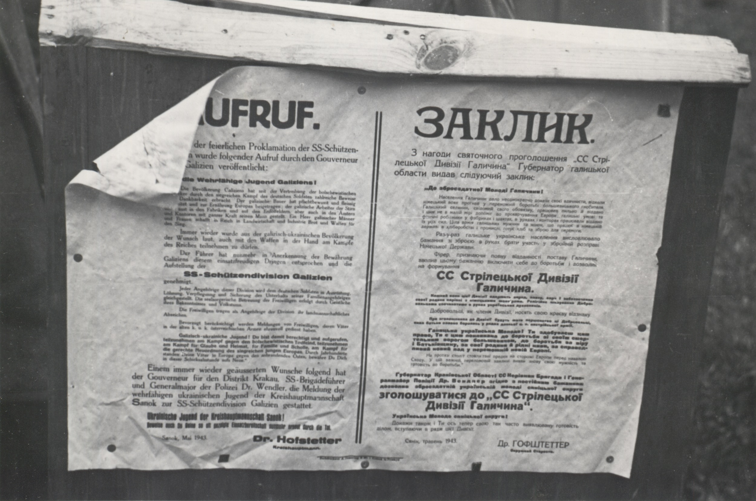 SS Galizien Recruitment Poster in German and Ukrainian, Sanok. 1943